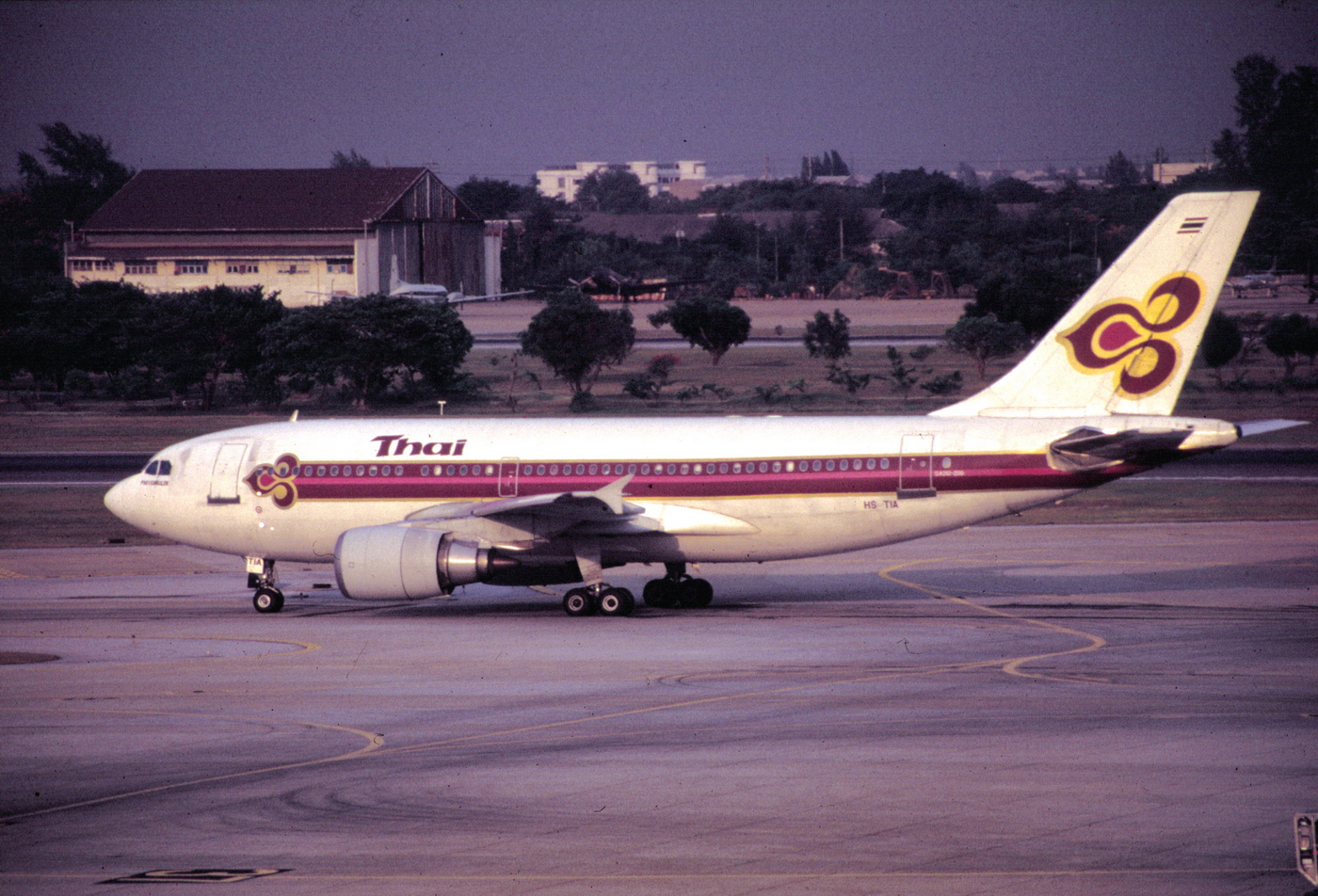 Photo of Thai Airways International Airbus A310-204, registration HS-TIA. This aircraft crashed on December 11, 1998 near Surat Thani Airport: Photo taken on June 20, 1997 at Bangkok International Airport (BKK)